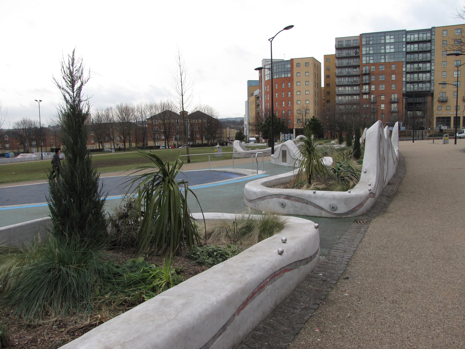 Devonshire Green, a small park in Sheffield City Centre